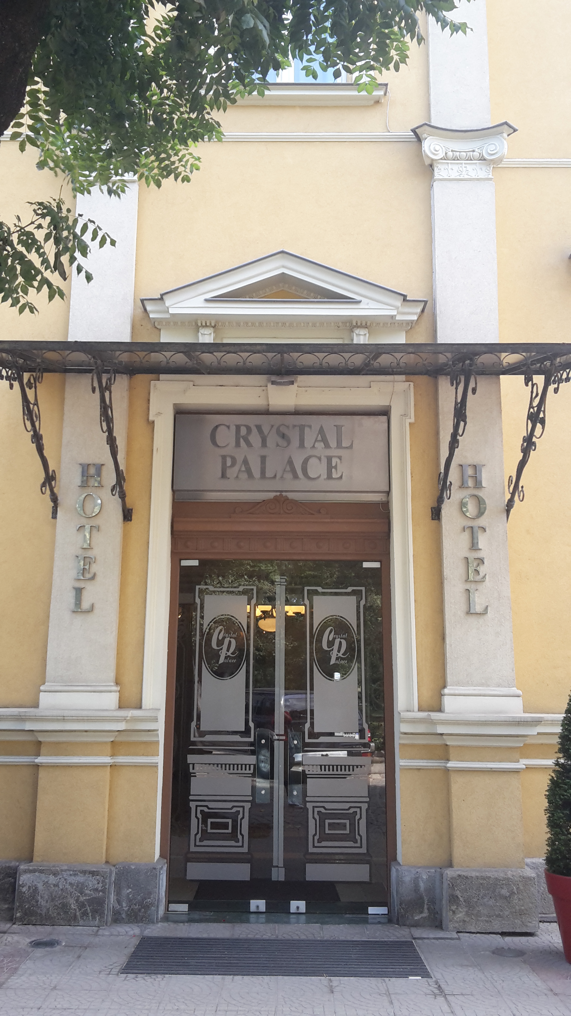 Main entrance to the Georgov House in Sofia, todah Cristal Palace Hotel